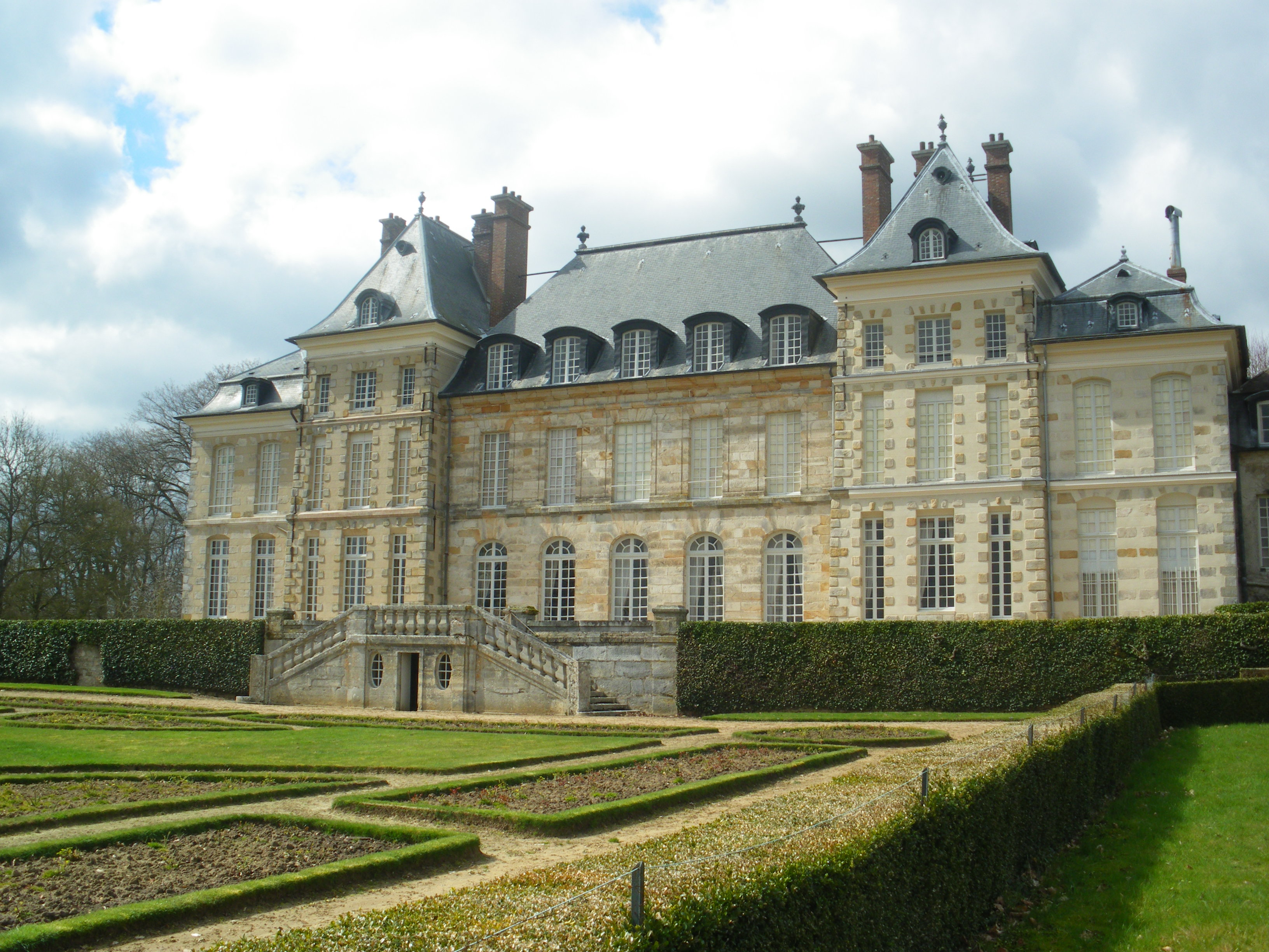 Saint Jean de Beauregard Castel, Essonne, France